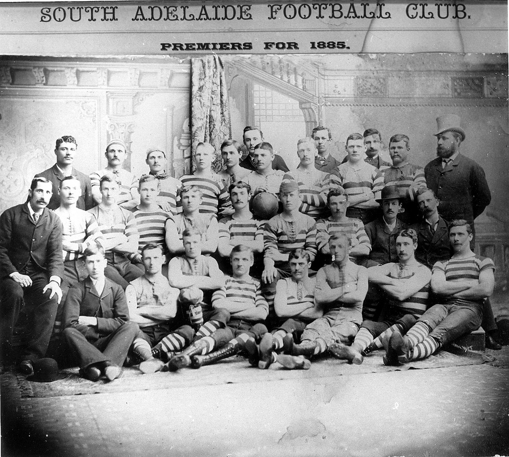 Members of the South Adelaide Football Club, premiers 1885; Charles Cameron Kingston, South Australian politician and soon to be Premier of the state in 1893, is standing in the back row, far right, wearing a top hat.